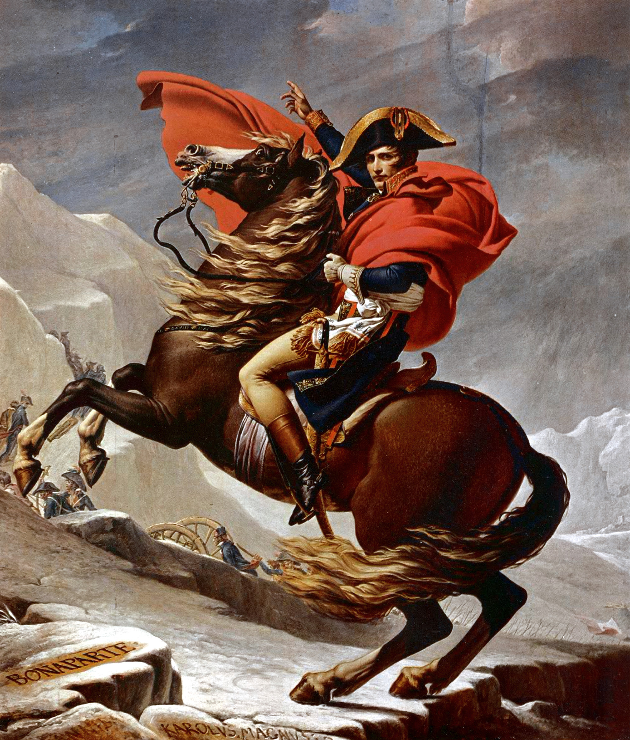 correction color and luminosity